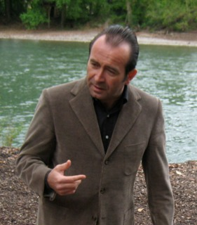 Miquel Calçada i Olivella, Catalan journalist